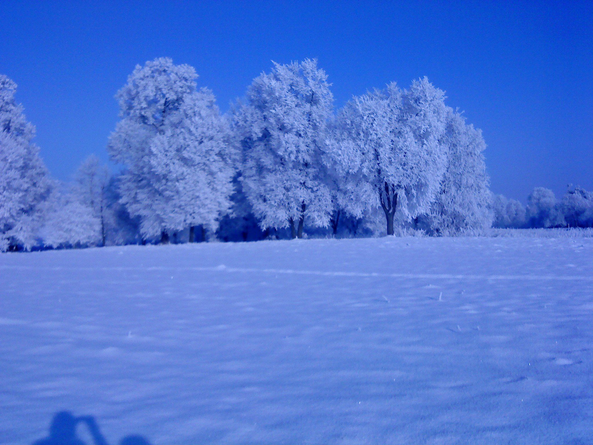 Winter in the village Mazyarka